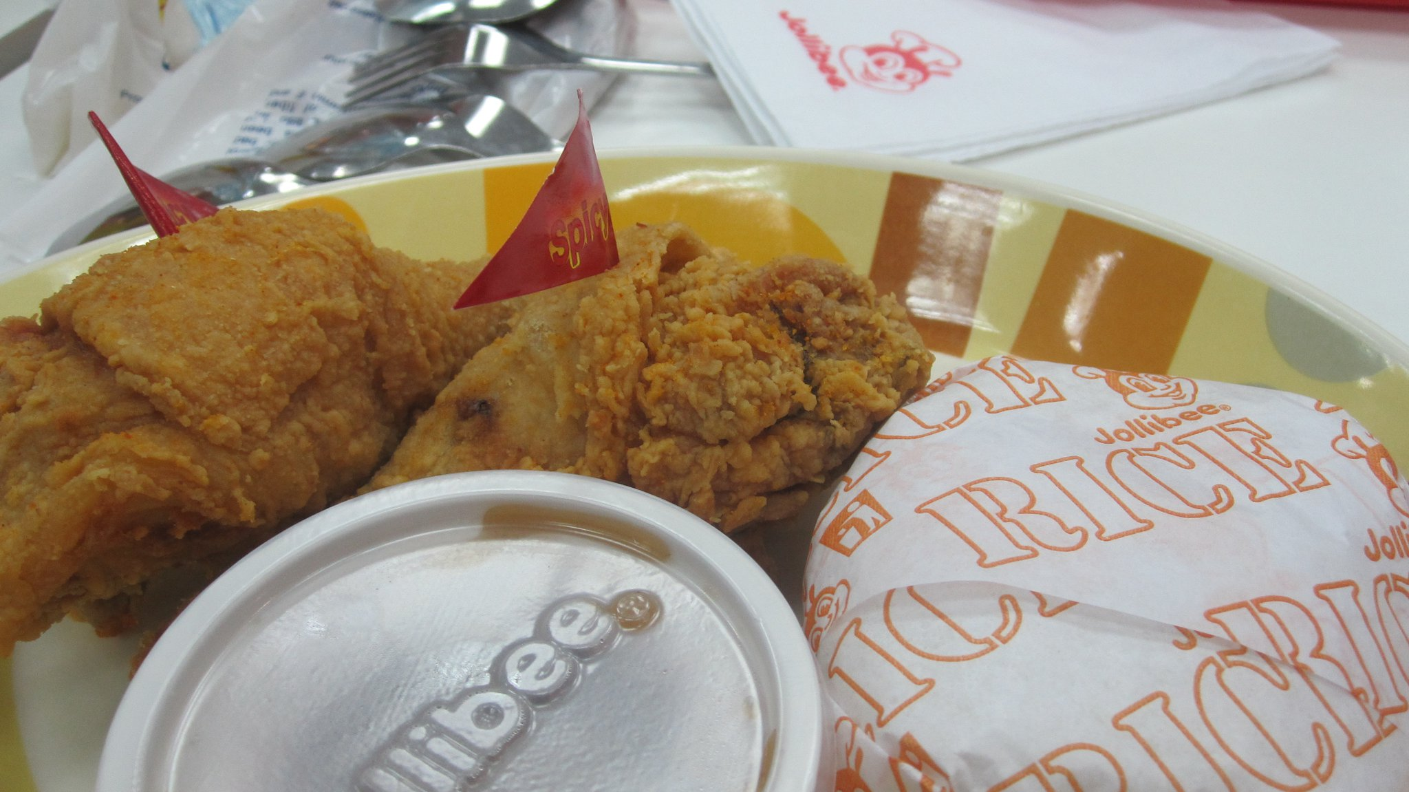 2-piece Spicy Chickenjoy with Rice and Gravy from Bohol, Philippines